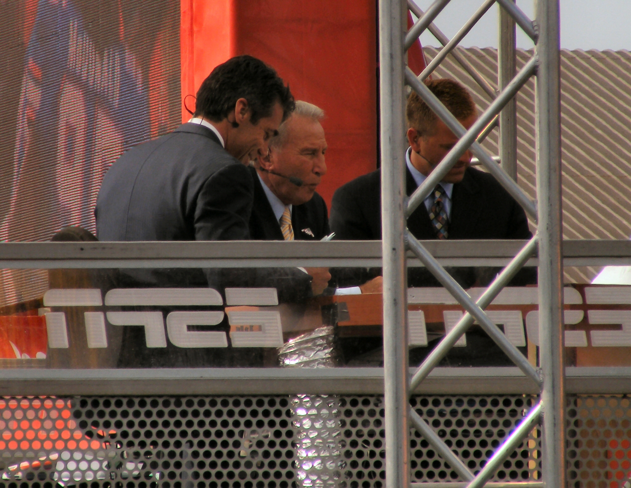 The College GameDay crew on campus at Virginia Tech for their 2007 opener against East Carolina. From left to right, Chris Fowler, Lee Corso, and Kirk Herbstreit are pictured.